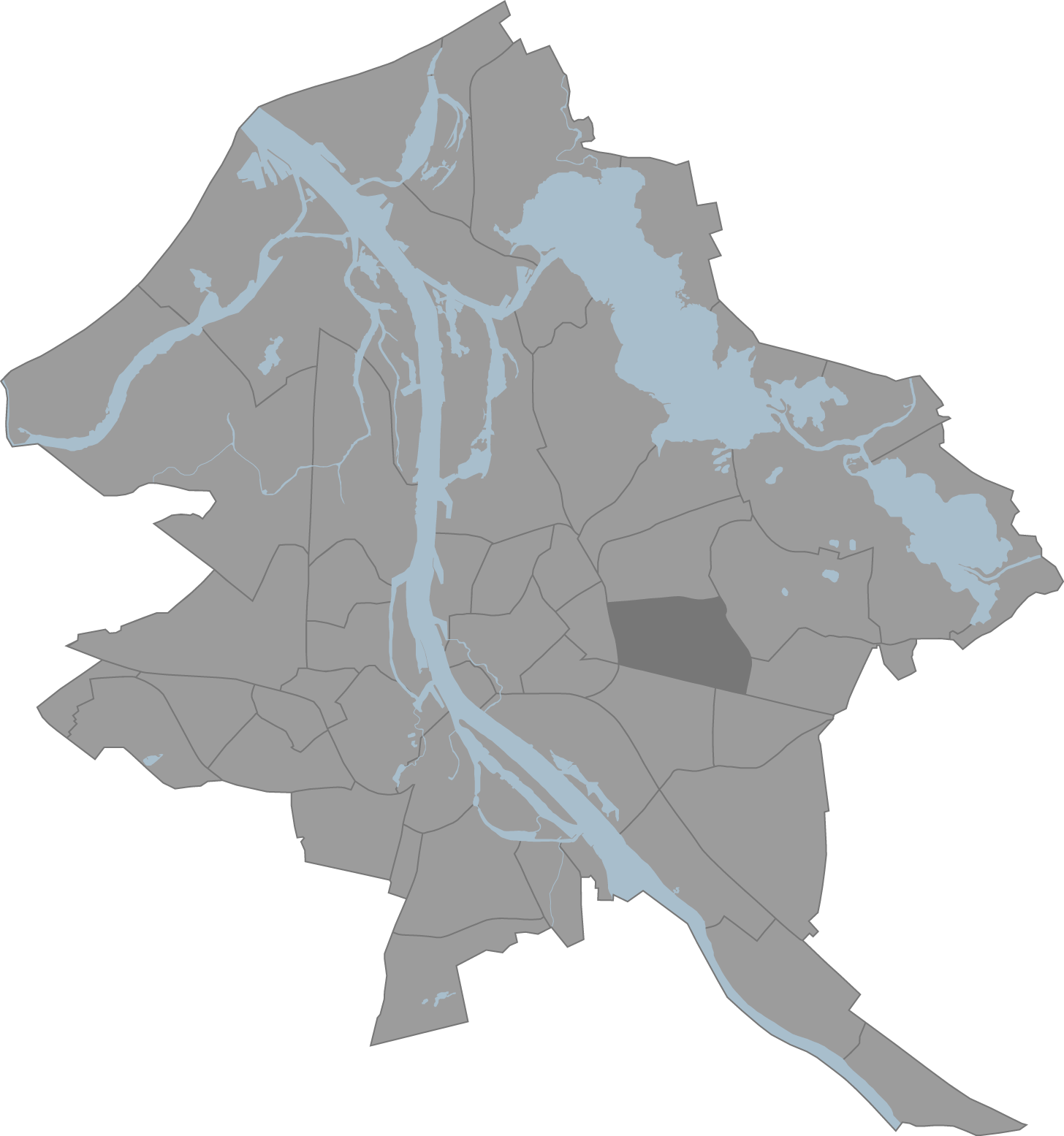 A map of Riga, Latvia with the eponymous commune highlighted